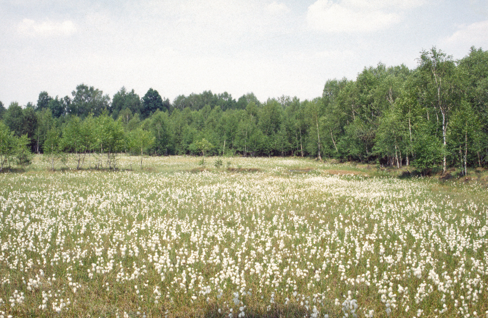 Jack's Swamp Nature Reserve - the cottongrass on the middle reservoir (B). Wesoła, Warsaw, Poland. This is a photography of Natura 2000 protected area with ID PLH140034